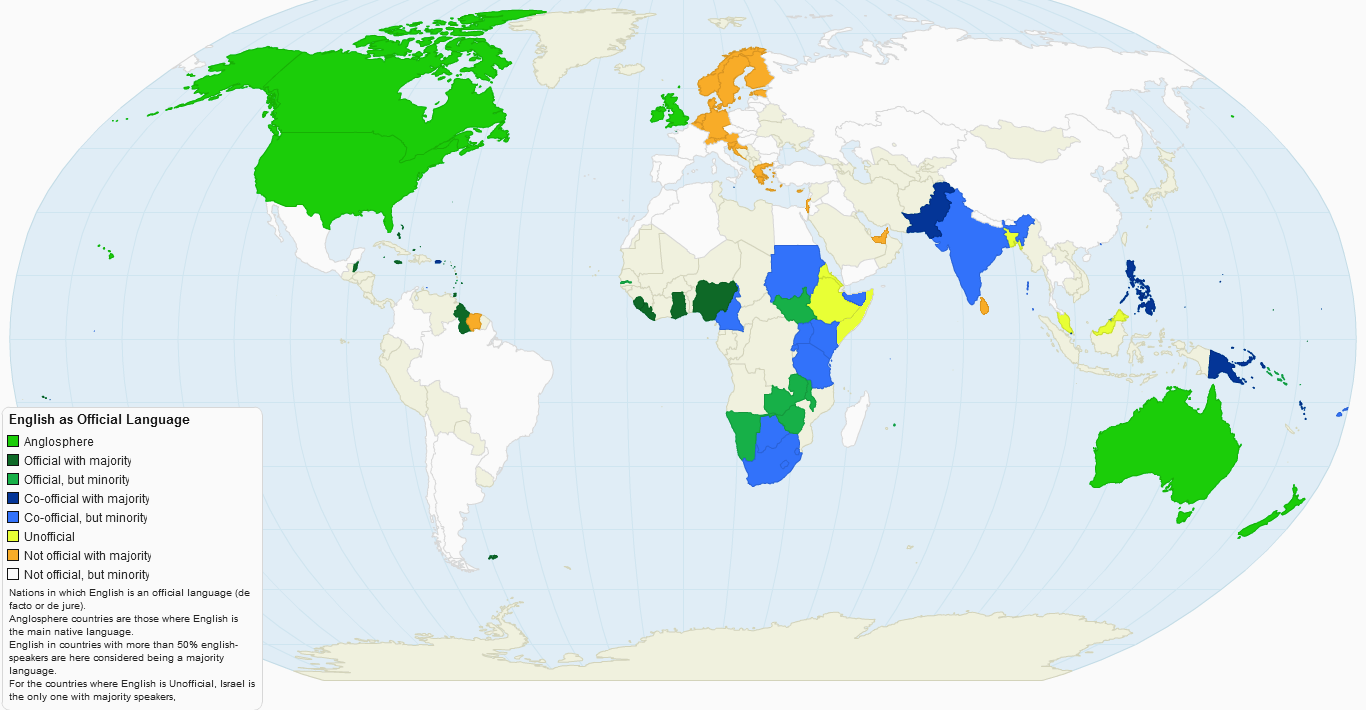 World map of countries by English being their official language. In the Canadian province of Quebec, French is the sole official language but it has a small English speaking population, see Charter of the French Language and related pages.